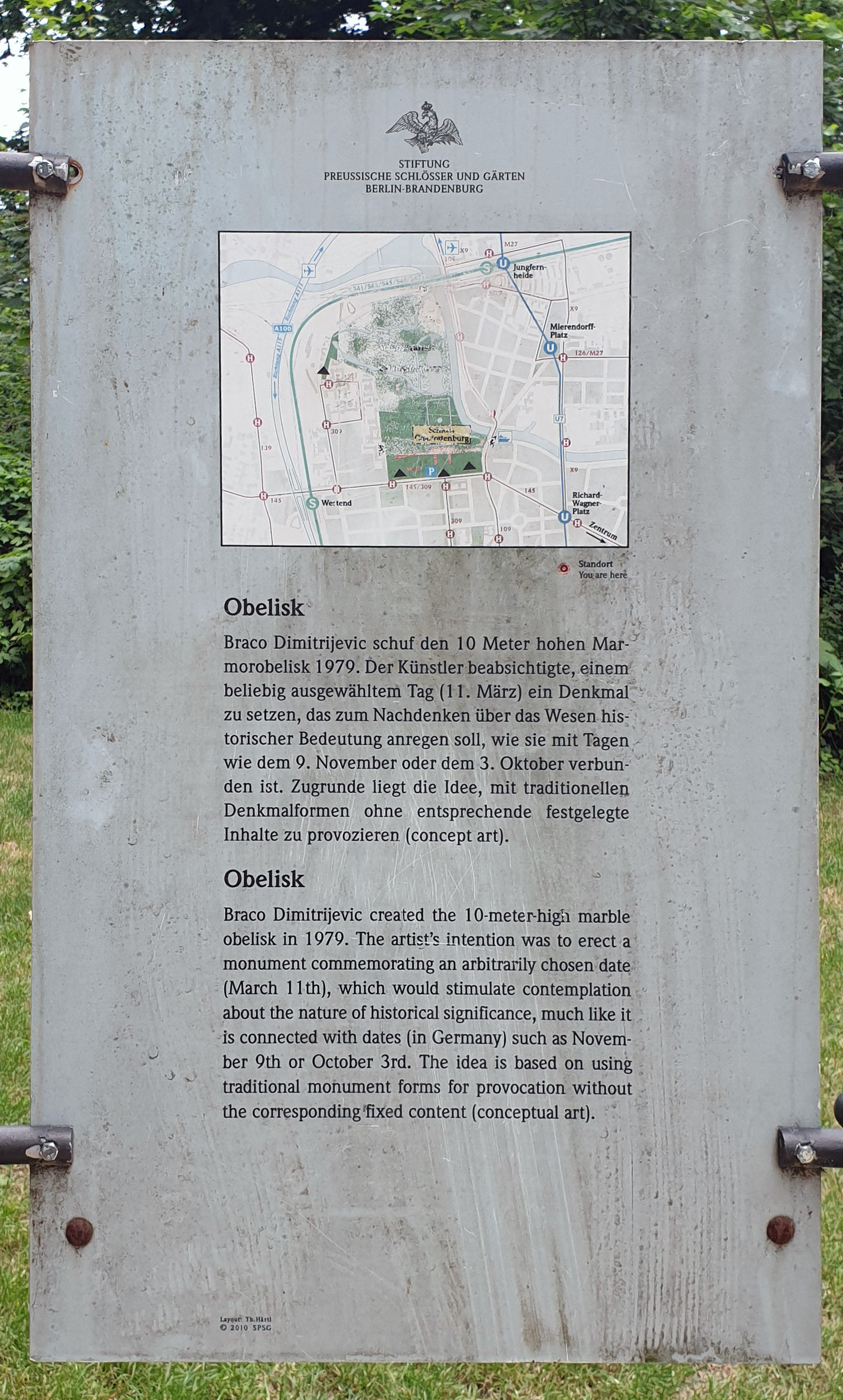 Memorial plaque, "Obelisk" by Braco Dimitrijević, 1979, Schloss Charlottenburg, Berlin-Charlottenburg, Germany